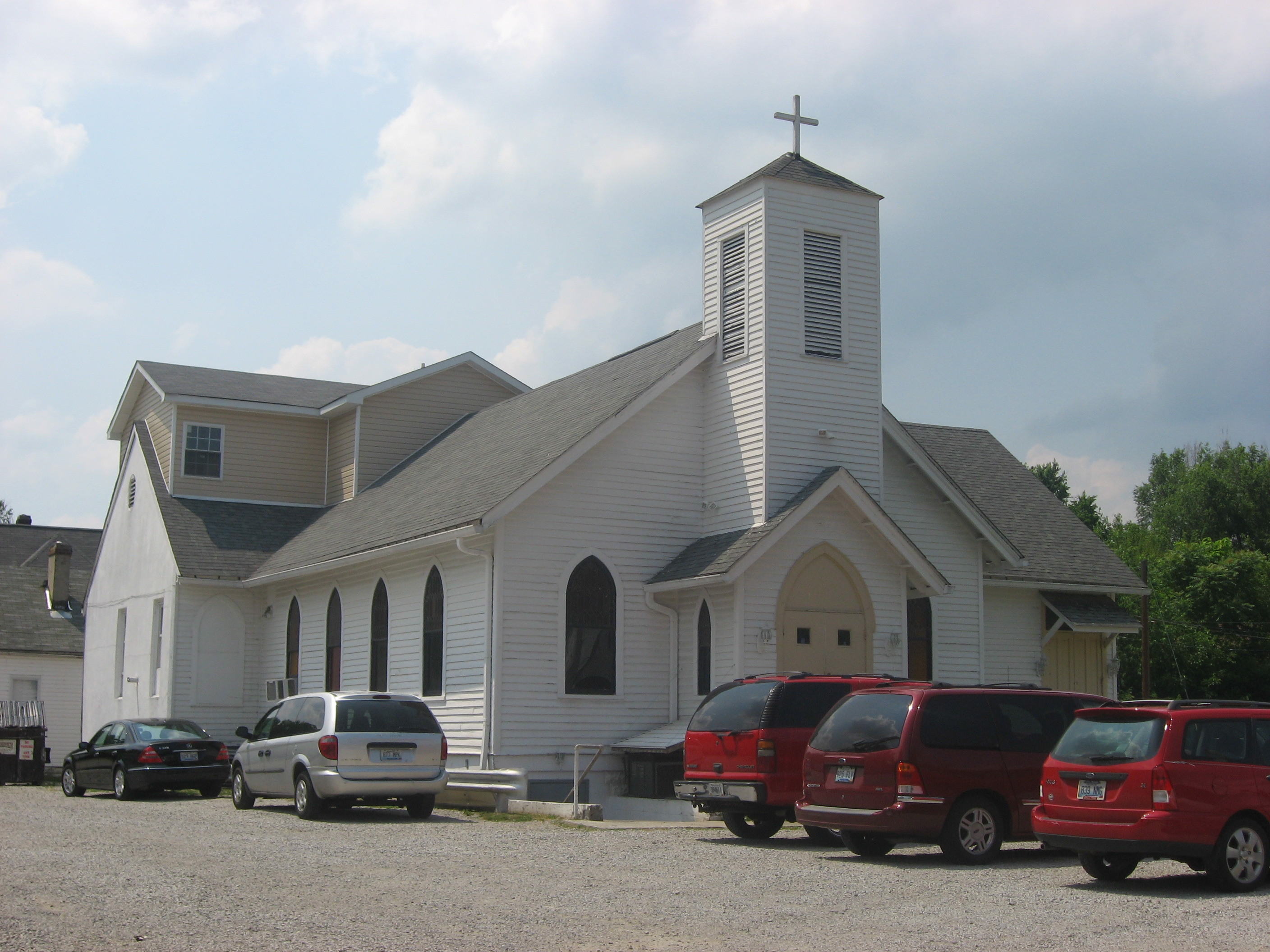 Front and southern side of the Parkland Evangelical Church, located at 1102 S. Twenty-sixth Street in Louisville, Kentucky, United States. Built in 1915, it is listed on the National Register of Historic Places.